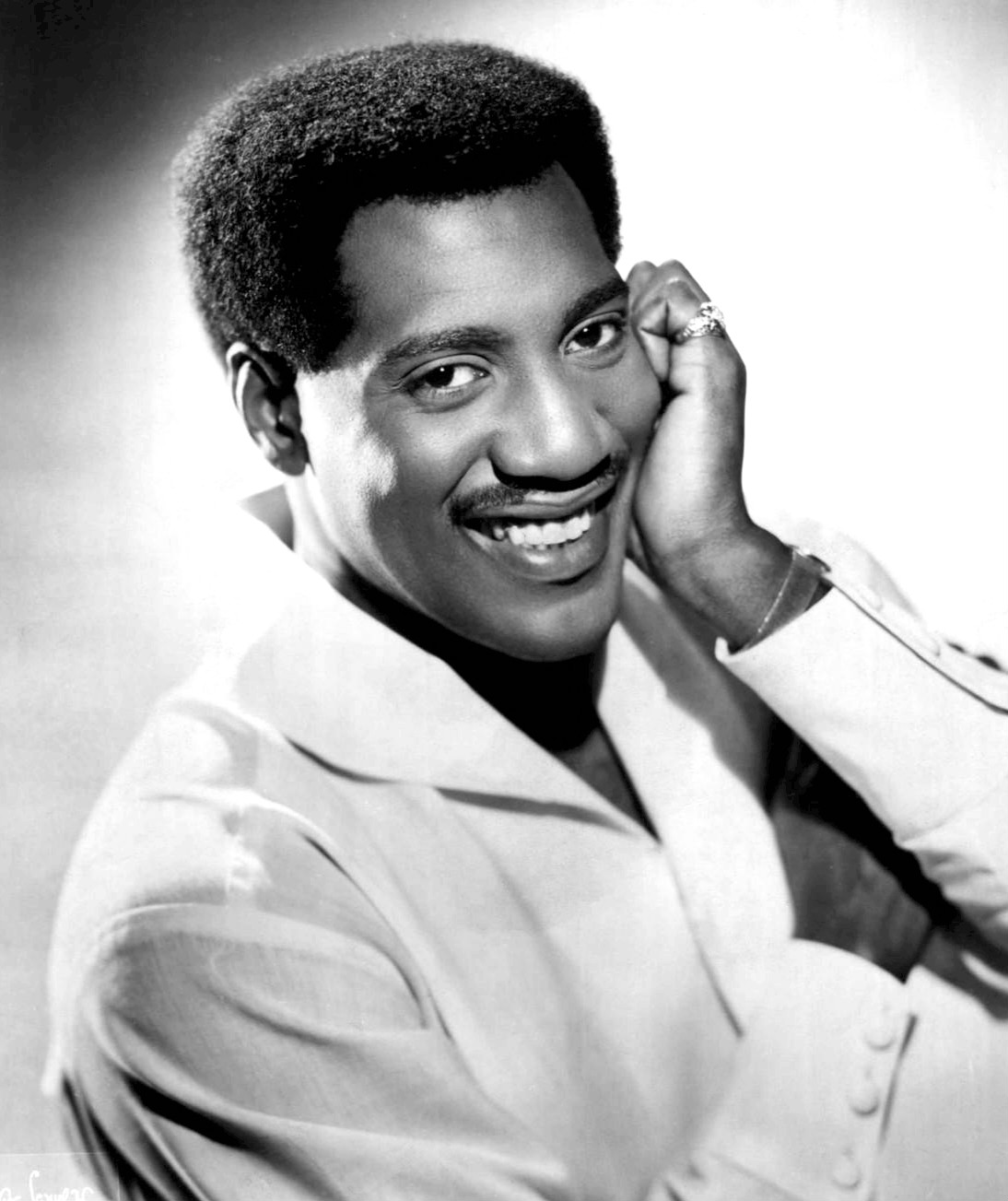 Photo of singer Otis Redding.